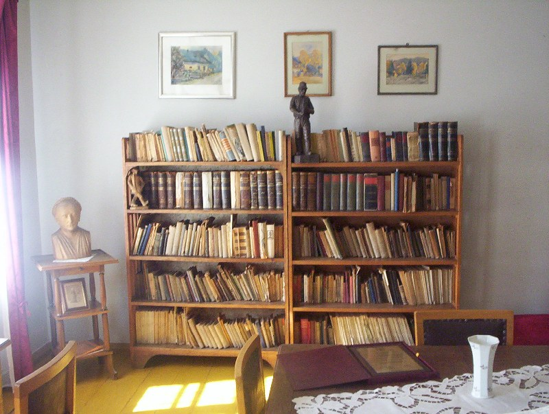 Study of the riter Paweł Hulka-Laskowski, arranged in his home, Żyrardów, Poland.